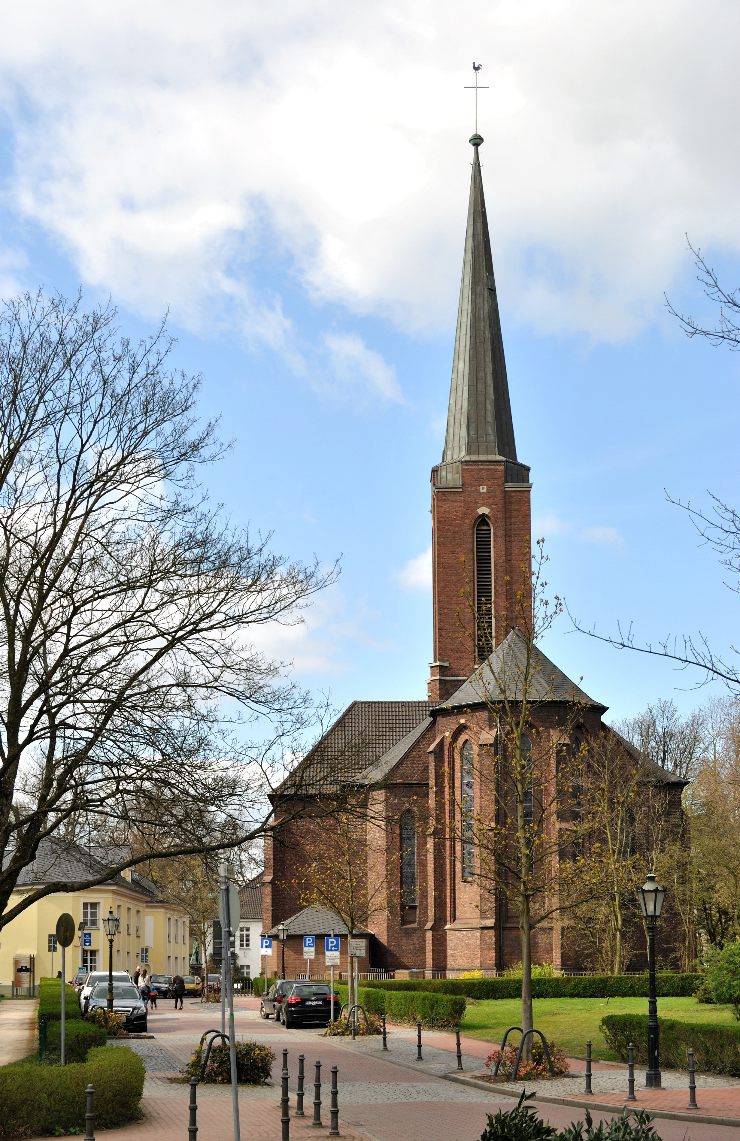 Moers (North Rhine-Westphalia, Germany) – Catholic parish church Saint Joseph (German: «St. Josef») next to the street Kastell This image shows a heritage building in Germany, located in the North Rhine-Westphalian city Moers (no. 003). This photograph was taken with a Nikon D3000